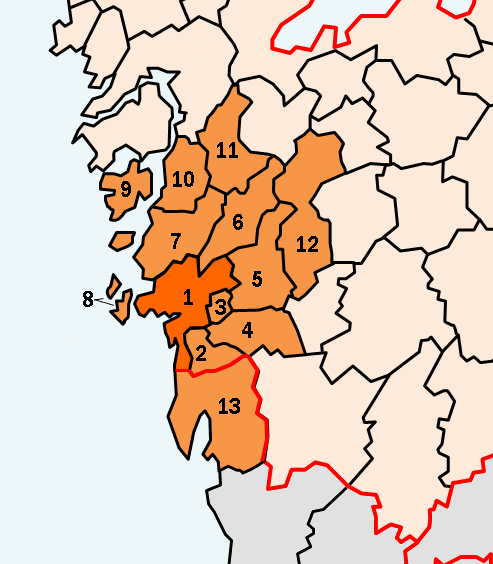 Map showing Metropolitan Gothenburg. Gothenburg is marked in dark-orange, and other municipalities belonging to the metropolitan area is mark in light-orange. Other municipalities in the same county is in pink. Municipalities not belonging to Västra Götaland county is in grey. County border is in red.